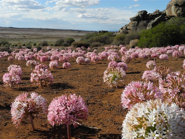 Brunsvigia bosmaniae in flower near Nieuwoudtville, Cape Province, South Africa